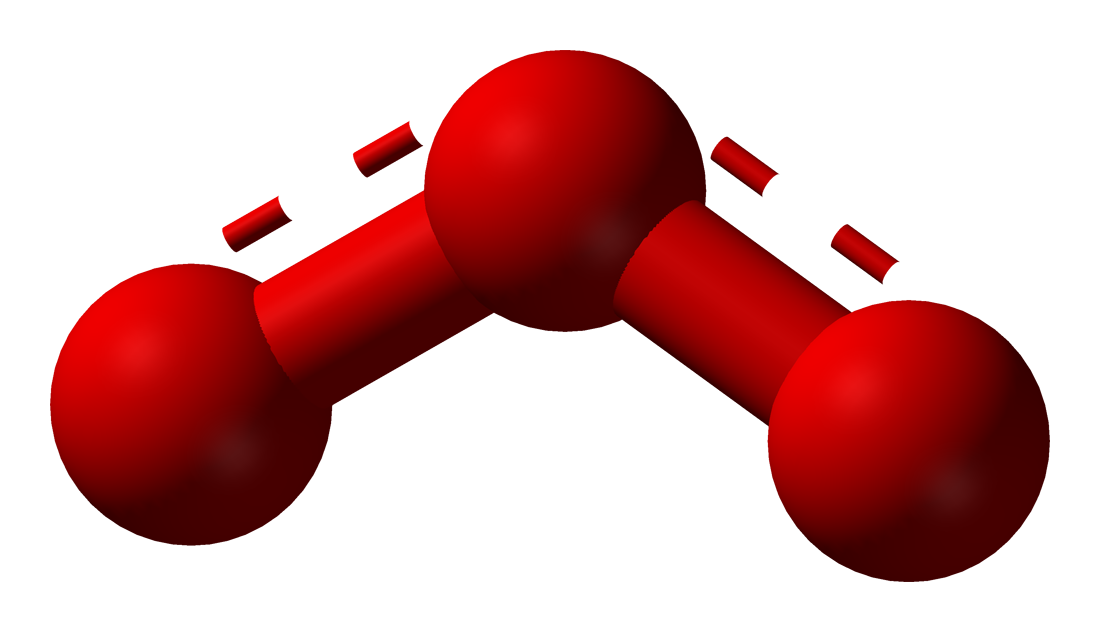 Ball-and-stick model of the ozone molecule, O3. Structure, determined by microwave spectroscopy, from CRC Handbook, 88th edition. Image generated in Accelrys DS Visualizer.